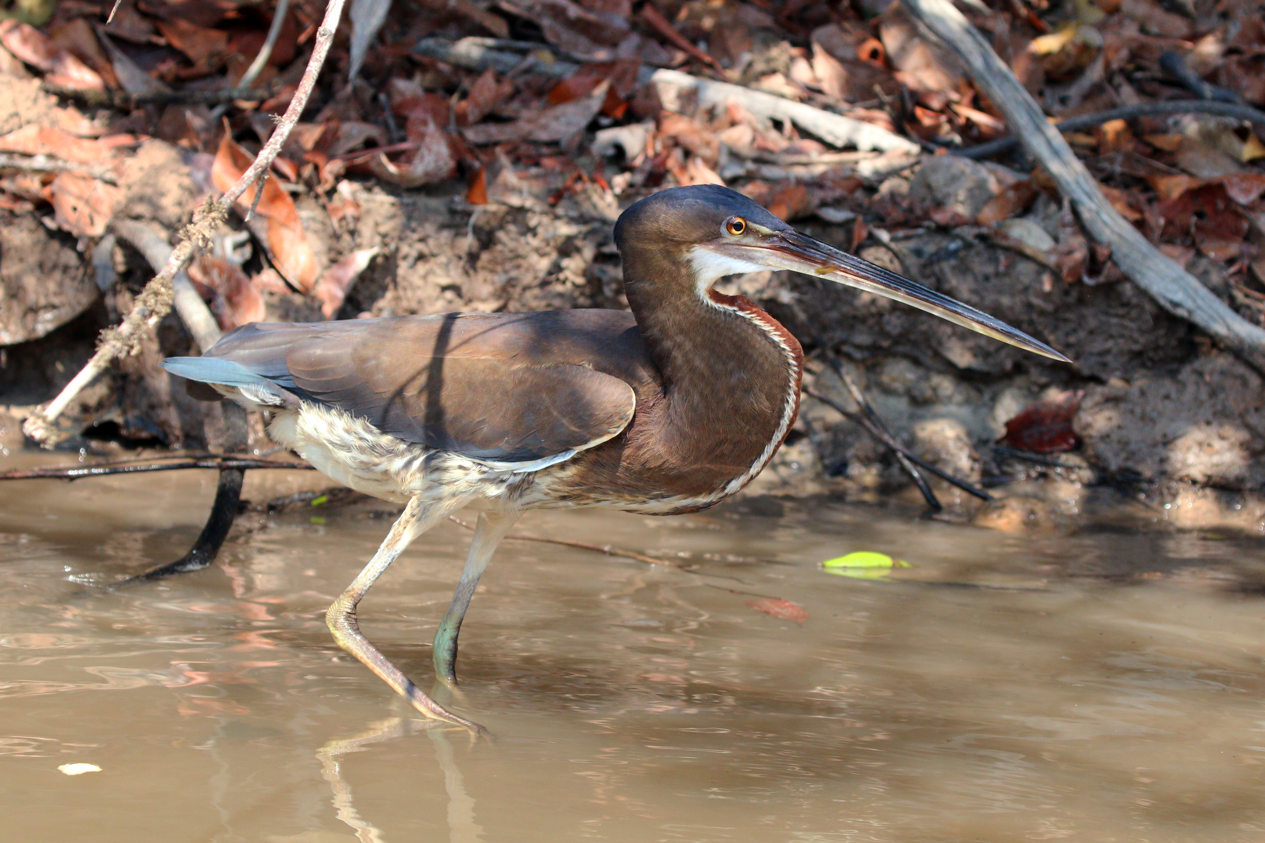 Agami heron (Agamia agami) juvenile, Cristalino Lodge, Brazil